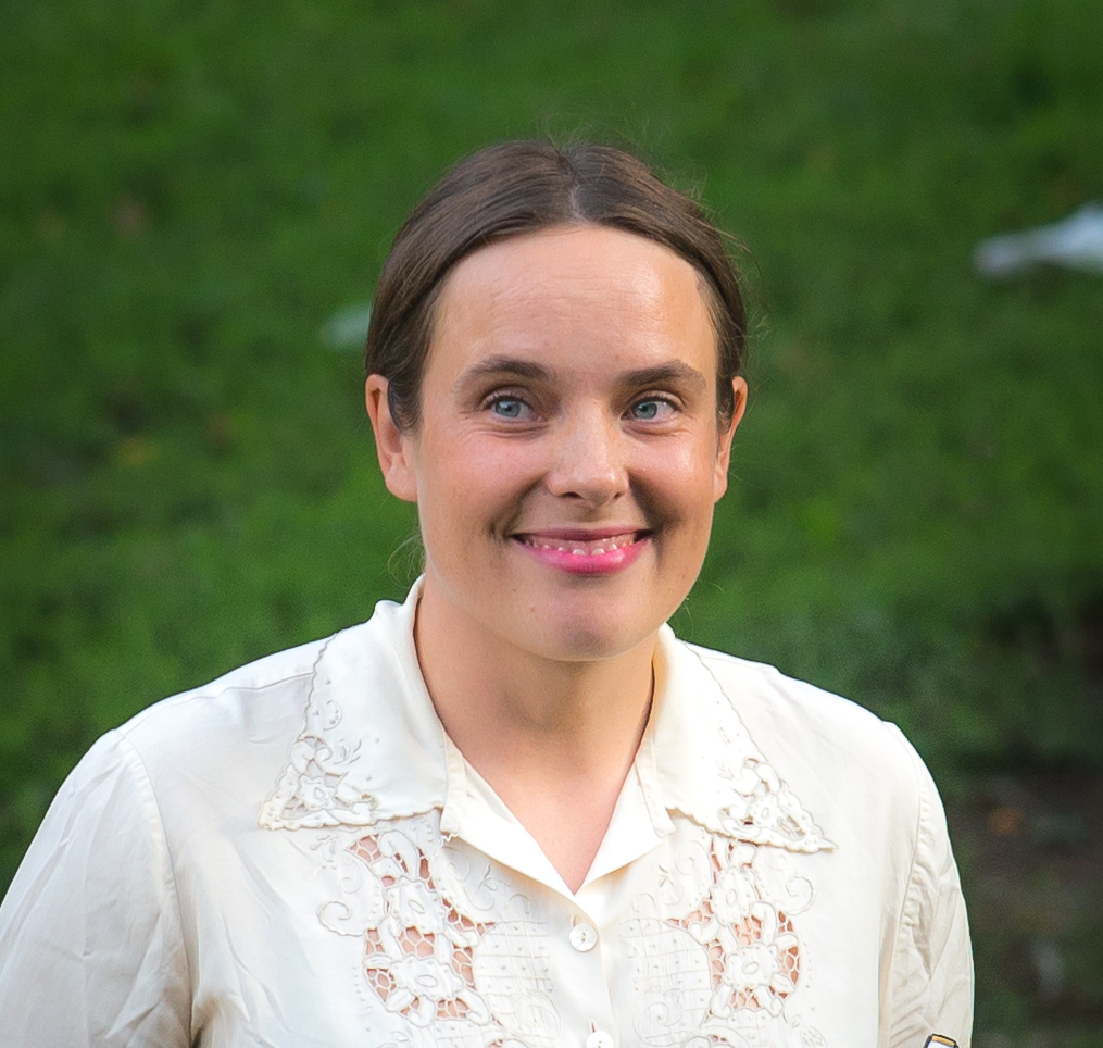 Matilda Södergran reads her own poems during Poetry in the Park, arranged by the Stockholm City Library.